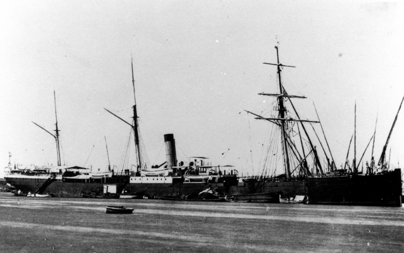 Steam ship Prins Hendrik launched 1874. Built in Scotland, she was sunk a first time in Aden on 1 November 1886. After being resurfaced, she was commissioned as Sultan by a British Indies company, and sunk near Socotra on 10 June 1897.